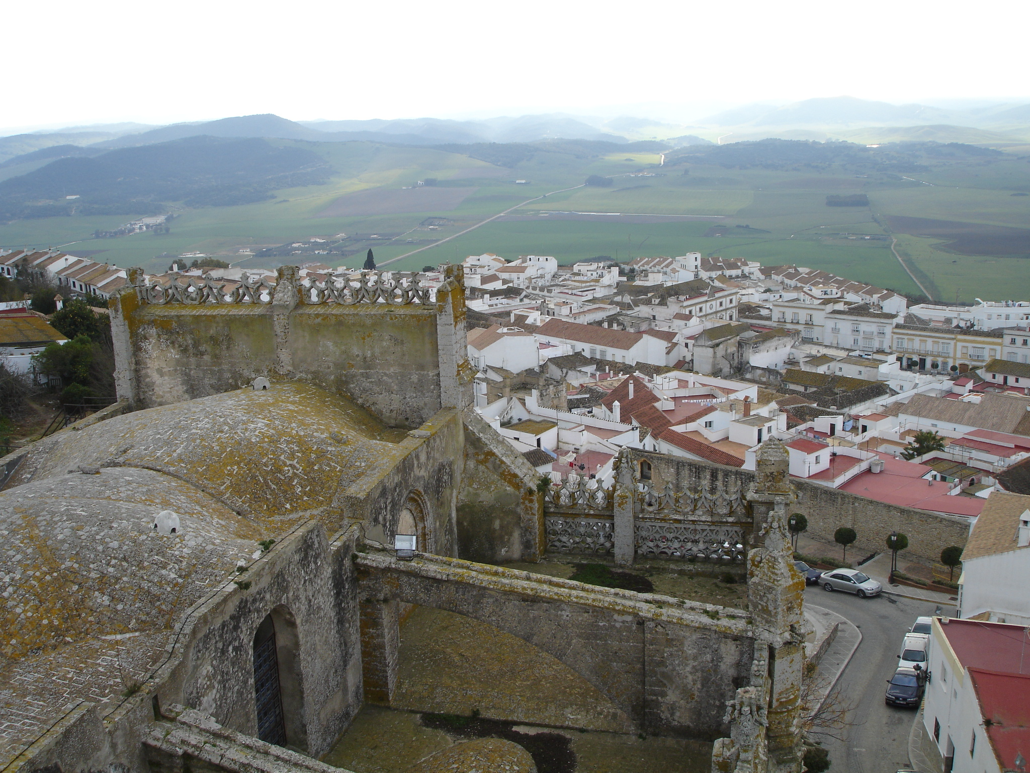 View from the tower of Santa Maria Church in Medina Sidonia, Andalusia (Spain)